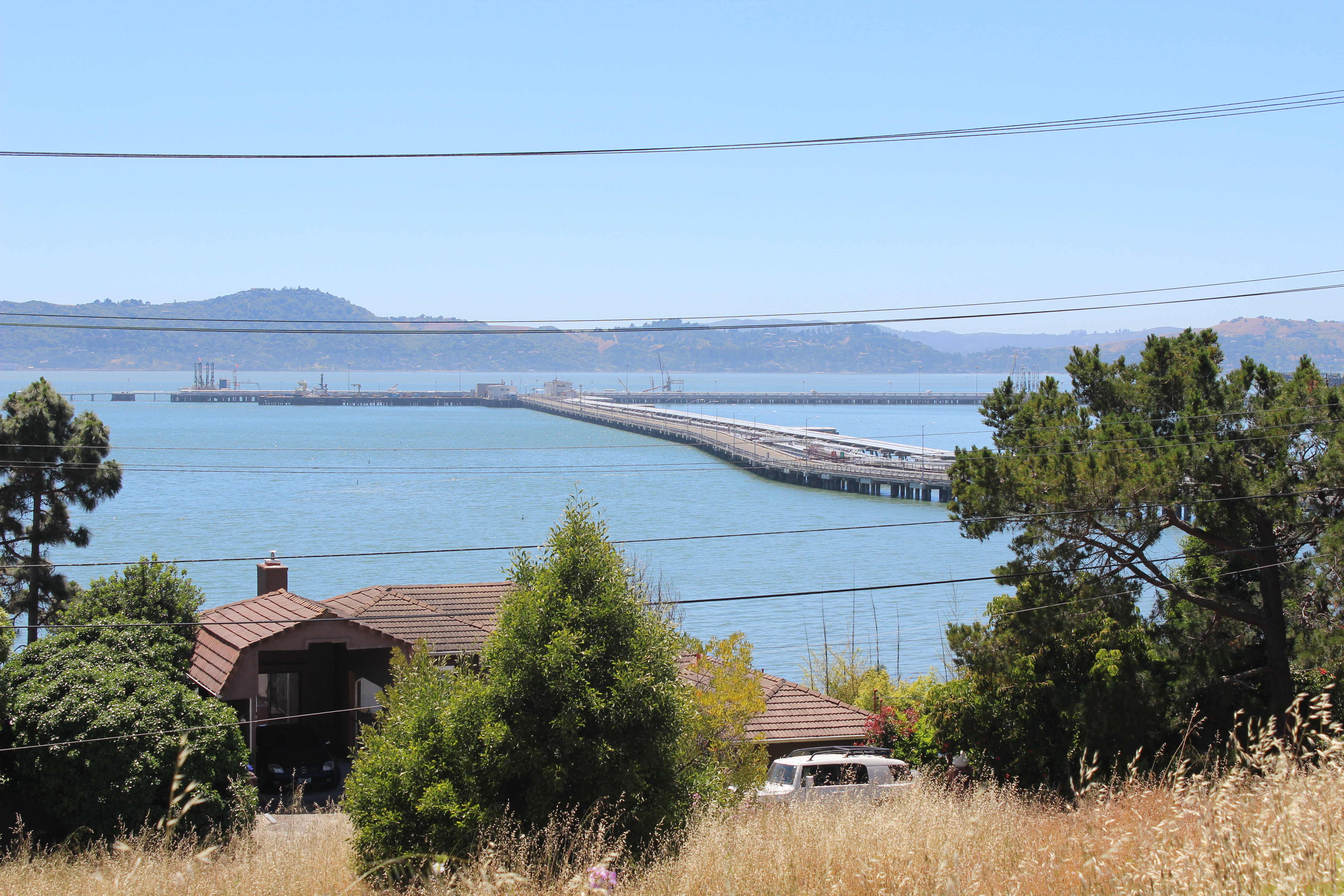 The Richmond Long Wharf, managed by Chevron Corporation